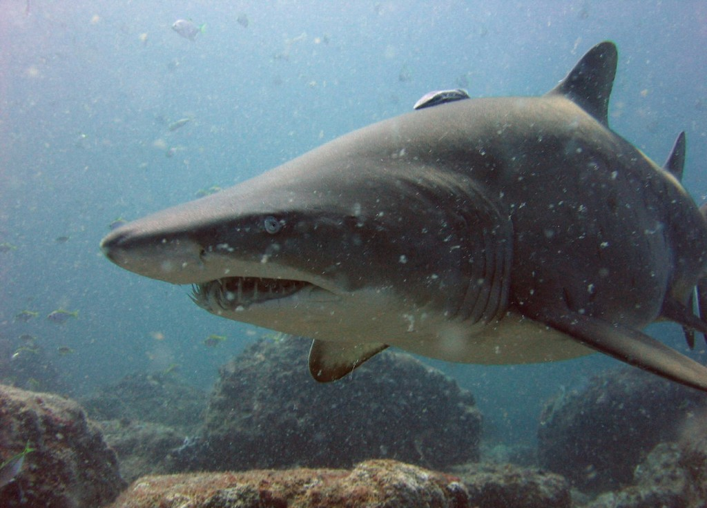 Portrait of a Grey Nurse Shark (Carcharias taurus). Green Island, South West Rocks, NSW